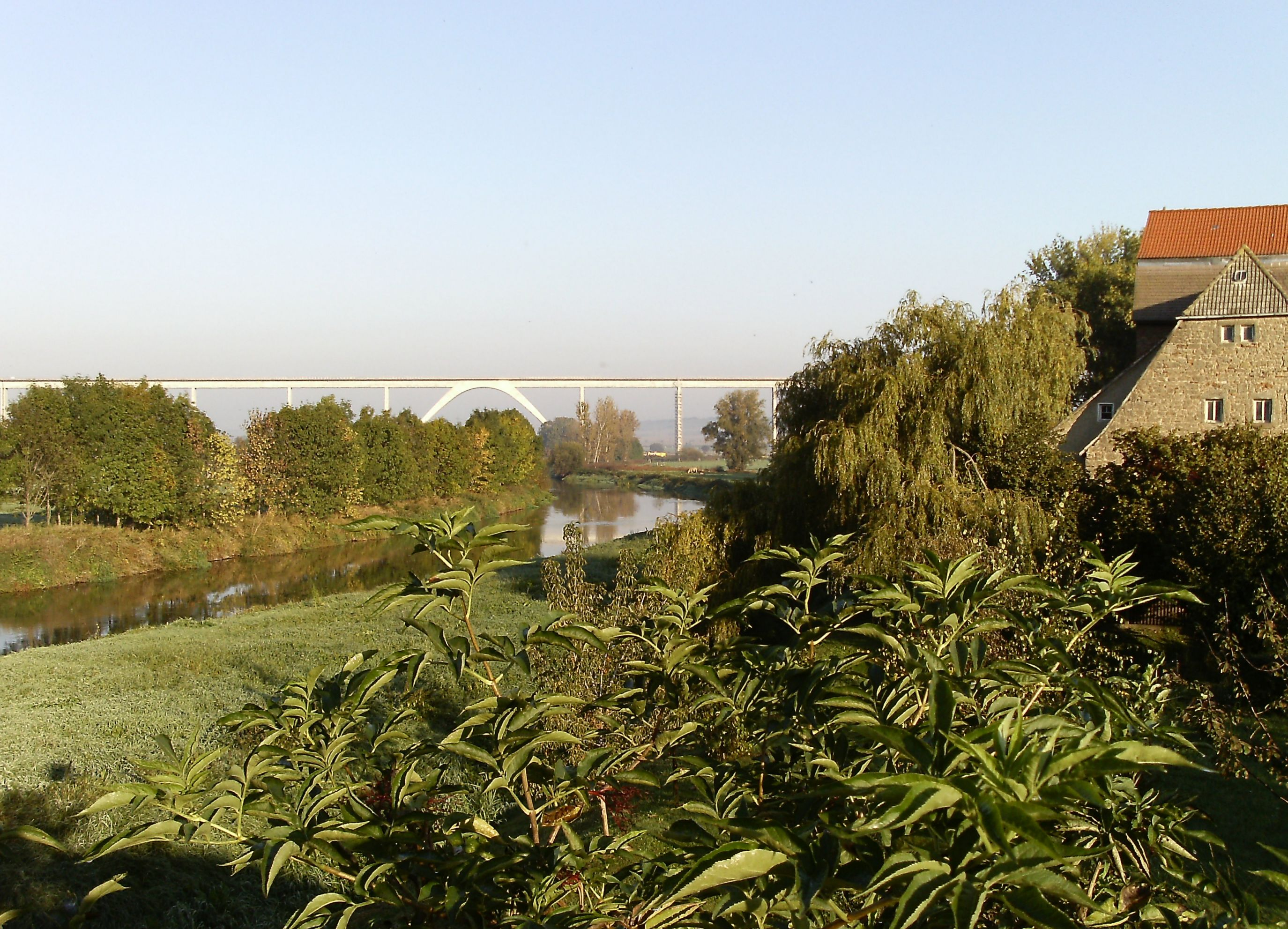 Unstrut valley at Karsdorf (district of Burgenlandkreis, Saxony-Anhalt) with the Unstrut valley bridge of the Leipzig-Erfurt high-speed railway line in the background